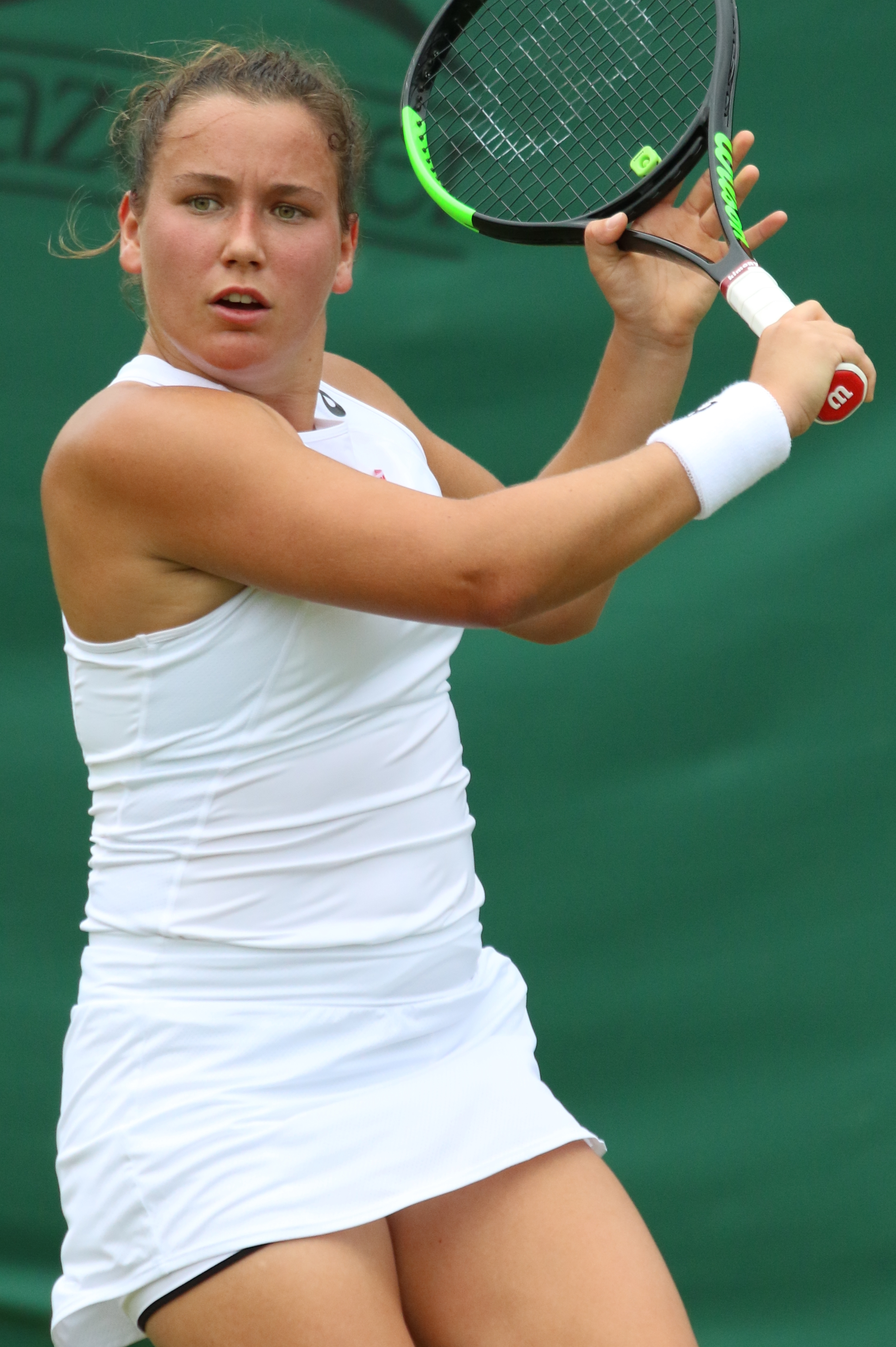 2019 Wimbledon Qualifying Tournament.